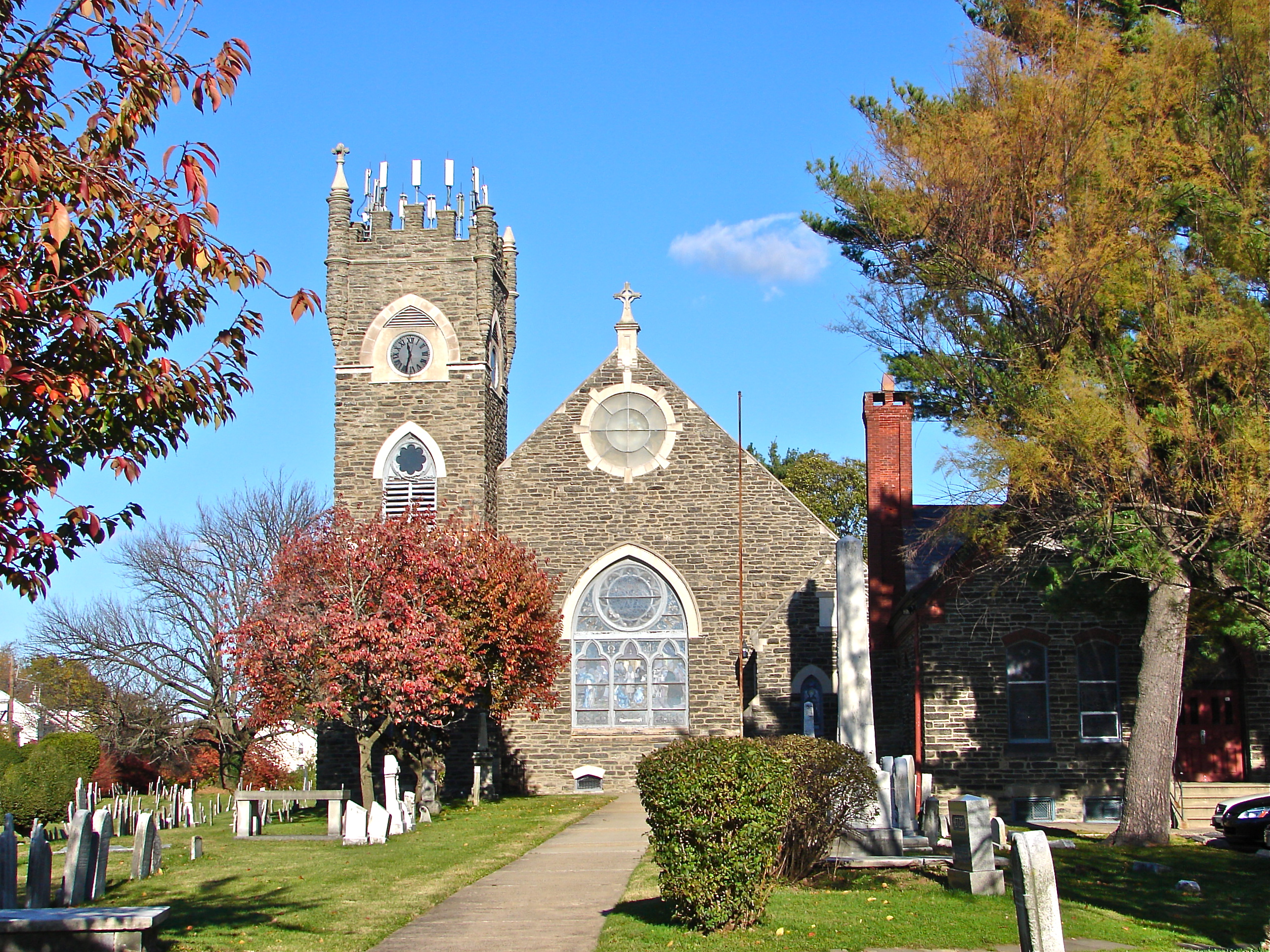 St. Michael's Lutheran Church in Germantown, at 6671 Germantown Ave., Philadelphia, PA. Part of the Colonial Germantown Historic District, a National Historic Landmark Historic District. This church was built in 1896-97 and the parsonage (to the right) in 1855, but there seem to have been churches on this lot going back to the 1730s. The Lutheran church in Germantown has a history that goes back to at least 1728, when the "first pastor" died and was buried here. Lutheran services in Germantown may go back to 1698 when German immigrants apparently followed Lutheran ritual if not Lutheran theology (there was a mix of independent Quaker-Mennonites, pietists and mystics). Henry Melchior Muhlenberg - the "first Lutheran pastor in America" preached here starting in 1743, soon after his arrival in America, but only on weekdays as he was busy with his 3 official churches. If none of this history makes sense